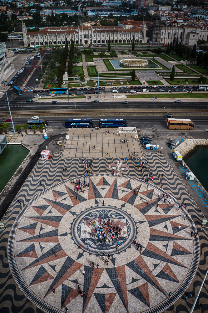 The compass rose and mappa mundi (a gift from the Republic of South Africa) view from the top observation deck. At the background is possible to see the famous Jerónimos Monastery, an UNESCO World Heritage Site. The Padrão dos Descobrimentos (The Monument to the Discoveries), is located in the beautiful city of Lisbon, Portugal. The Padrão dos Descobrimentos evokes the Portuguese expansion overseas and synthesizes the glorious past of Infante D. Henrique work in the “Age of Discovery” during the 15th and 16th centuries. More about this amazing monument here: bit.ly/1NjVT8e